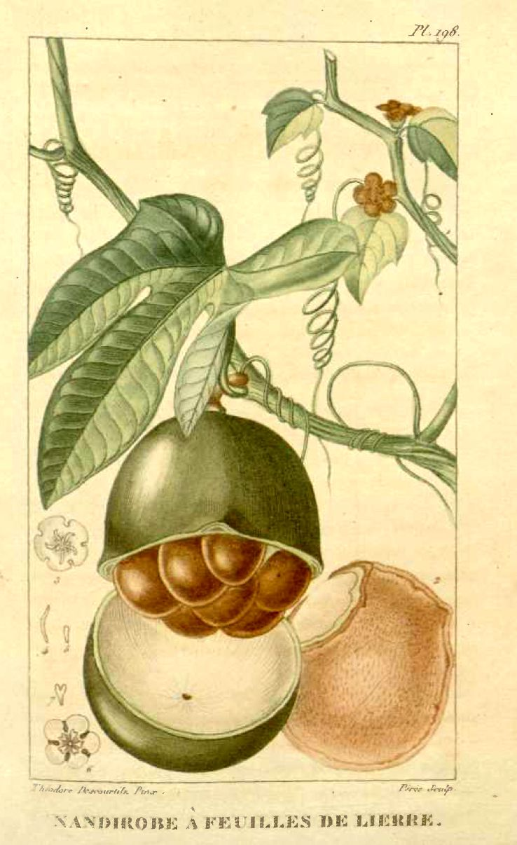 Descourtilz, M.E., Flore médicale des Antilles, vol. 3: t. 198 (1827) [J. T. Descourtilz]